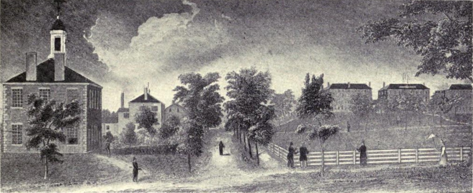 View of the Andover Theological Seminary and Stone Academy of Phillips Academy 1840. Chapel Ave. in center.